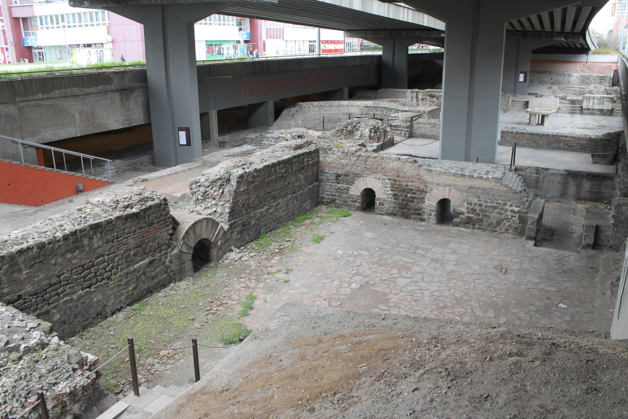 Thermae Maiores, Aquincum, Budapest